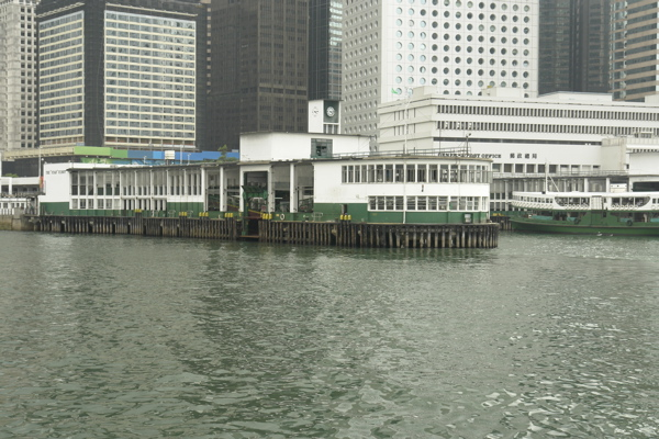 View of the Central Star Ferry (1957 - 2006) from one of the Star Ferry leaving the pier.